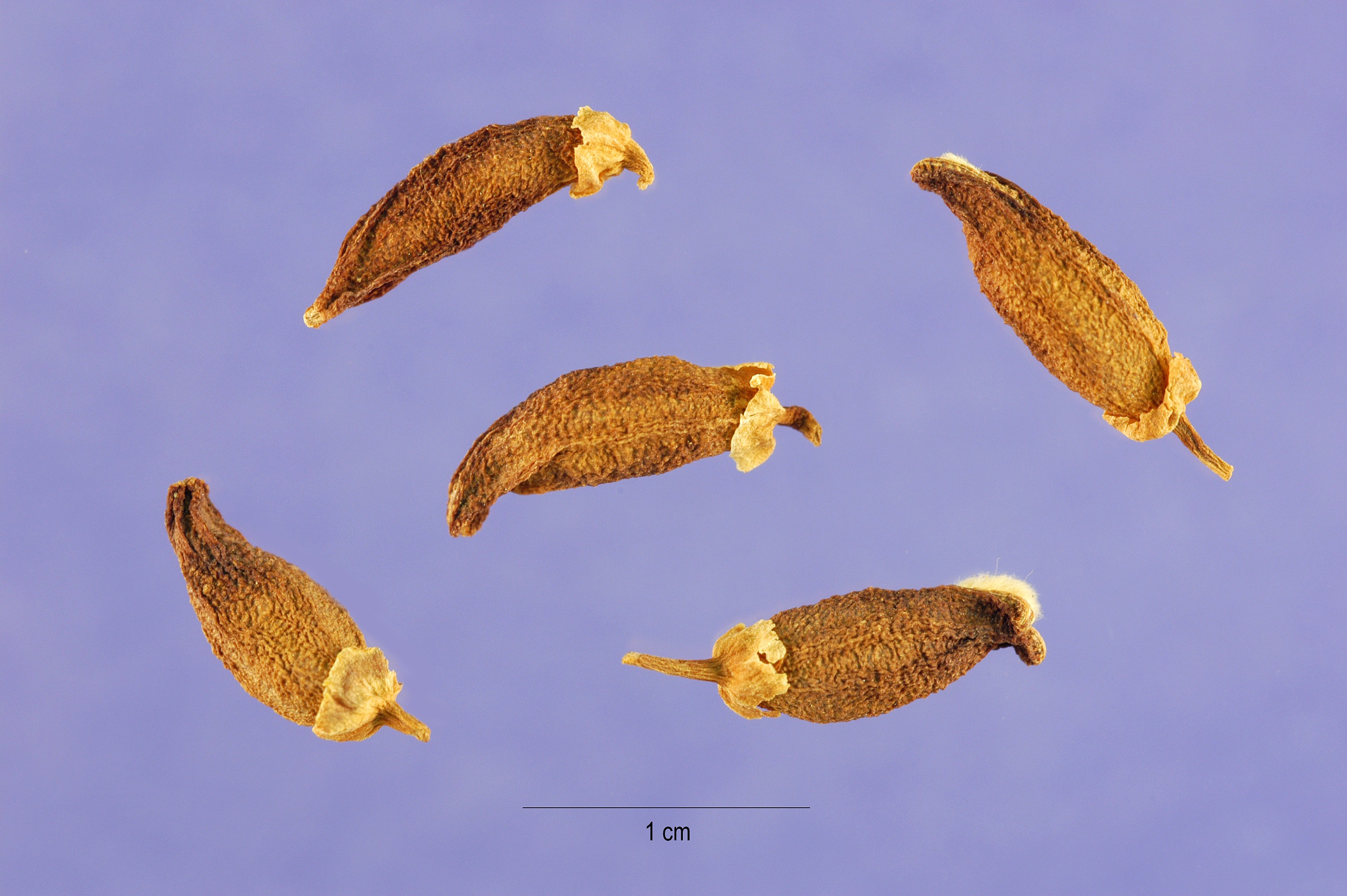 Populus deltoides seedpods